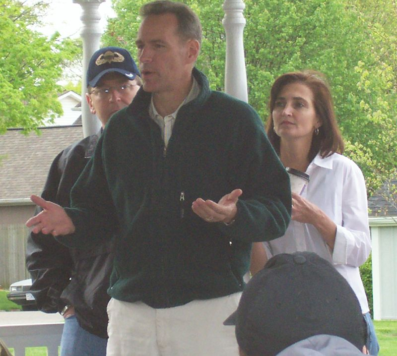 Paul Hacket (center) with his wife Suzi (right)